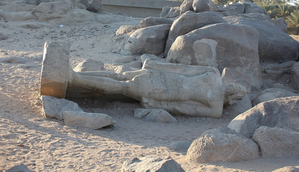 Tombos (Nubia): Incomplete statue in quarry